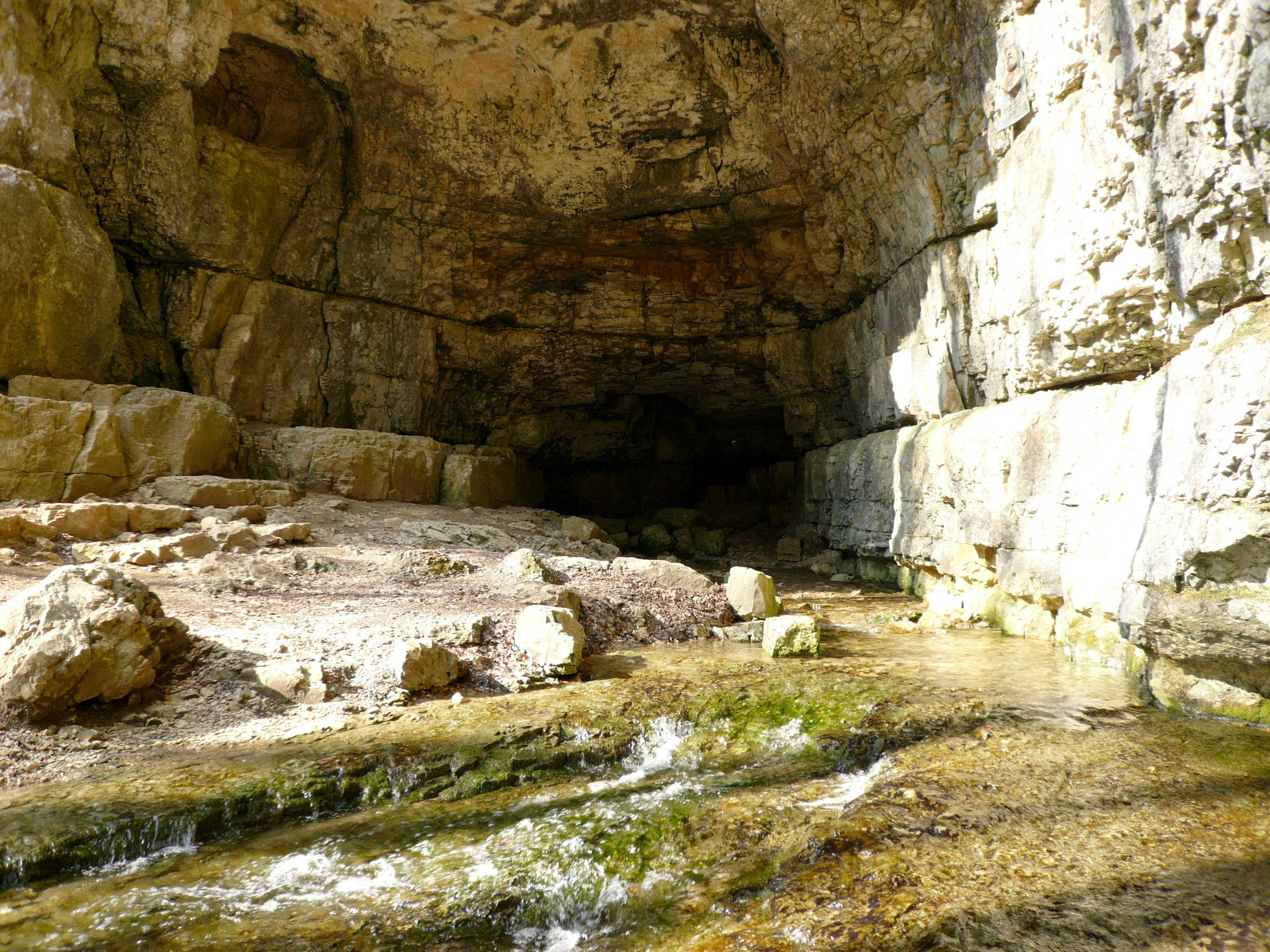 Entrance of cave Falkensteiner Hoehle